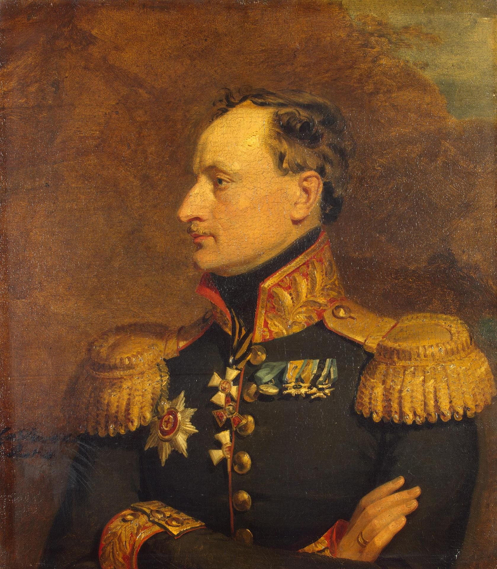 Portrait of Konstantin von Benckendorff (Константин Христофорович Бенкендорф, 1785-1828), a Russian lieutenent general and diplomat.